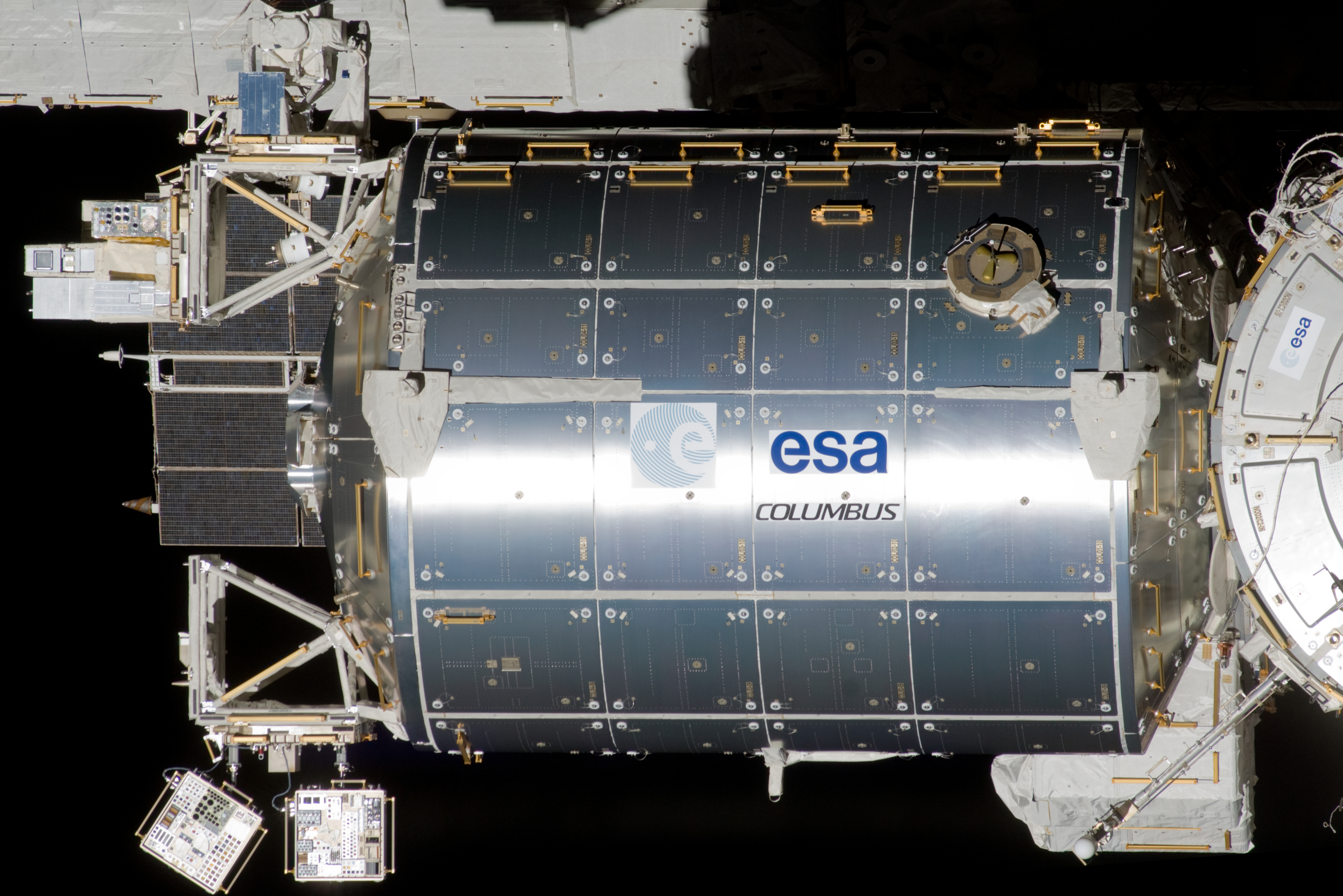 Fly-around view of the International Space Station (ISS) from STS-127 crew on the Space Shuttle Endeavour. Backaway view of the forward (FWD) side of the European Columbus Module. Image ID: s127e009781